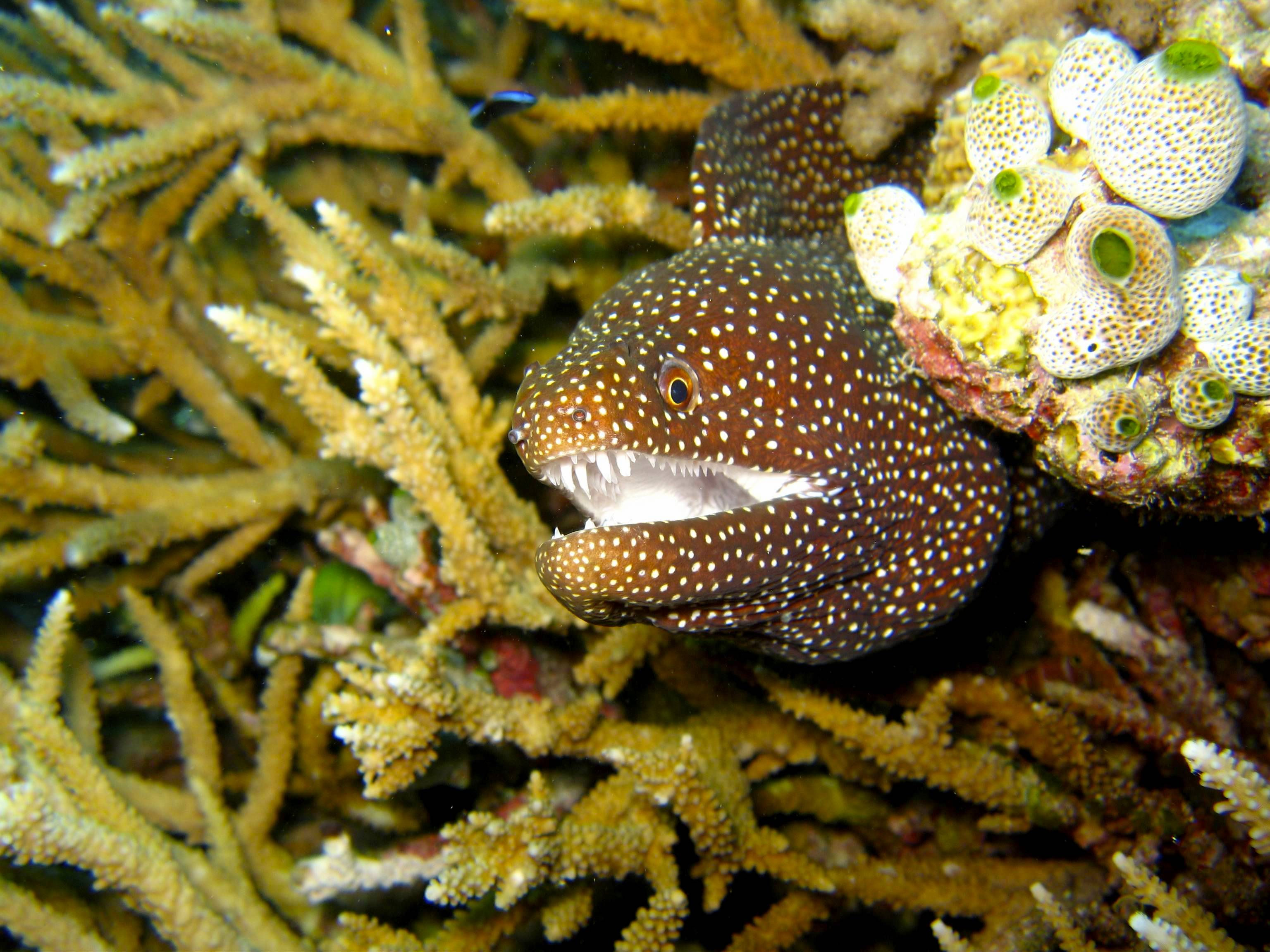 Photo of a moray eel taken in the Maldives by Michael Ströck (mstroeck) in 2006. Released under the GFDL.